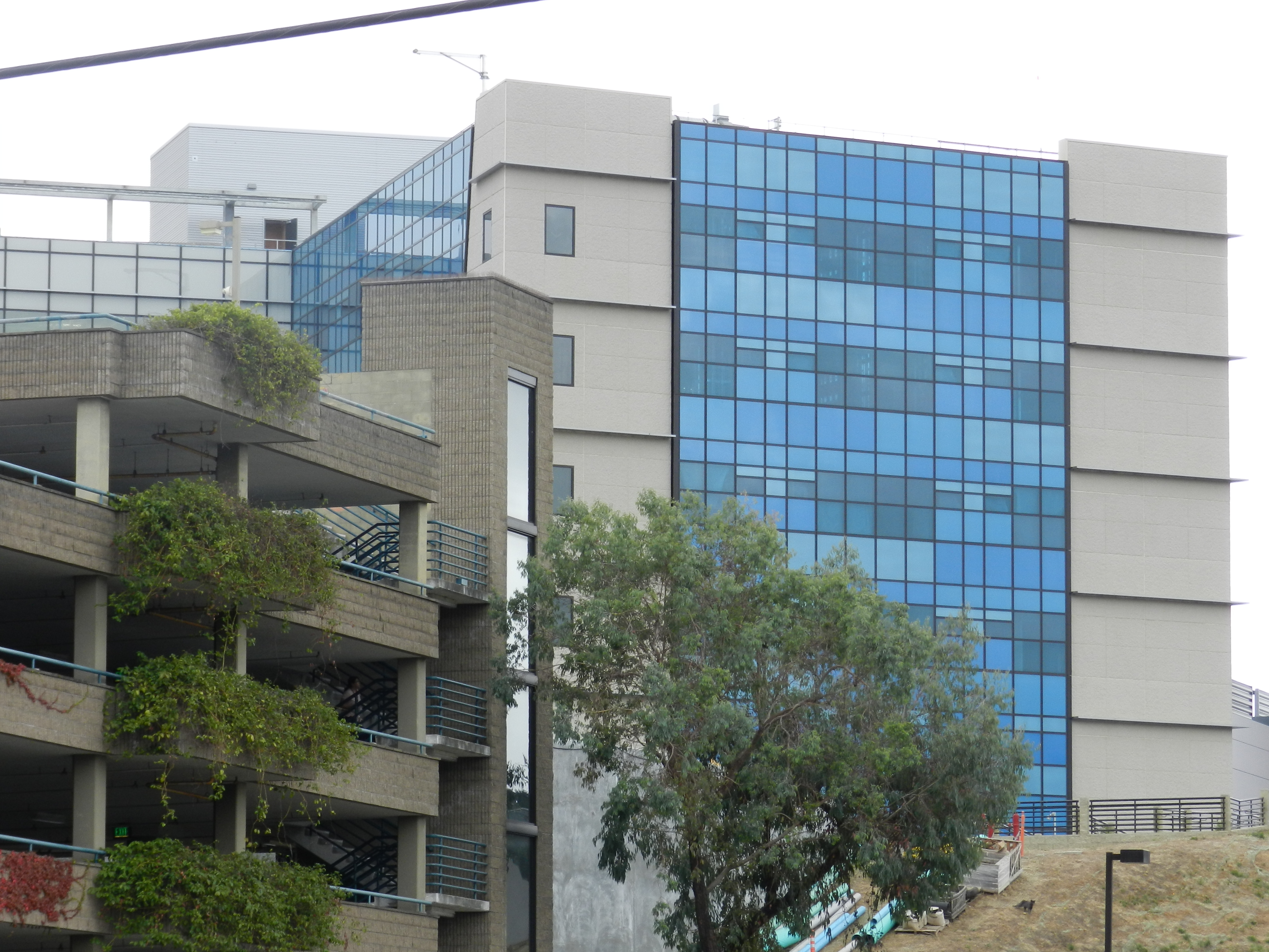 new construction at Eden Medical Center, Castro Valley, California